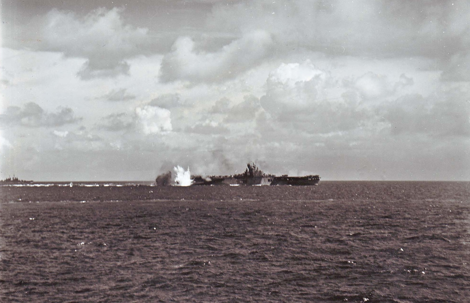 A near miss on the U.S. Navy aircraft carrier USS Bunker Hill (CV-17) during an attack by Japanese aircraft during the Battle of the Philppine Sea off the Marianas, on 19 June 1944. Note her camouflage measure 32 design 6A and the cruiser in the left background.